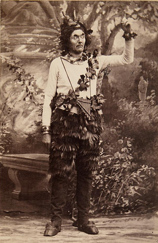 Johann Nepomuk Nestroy as Pan in Offenbach's Daphnis et Chloé, production of Theater am Franz-Josef-Kai in Vienna 1861